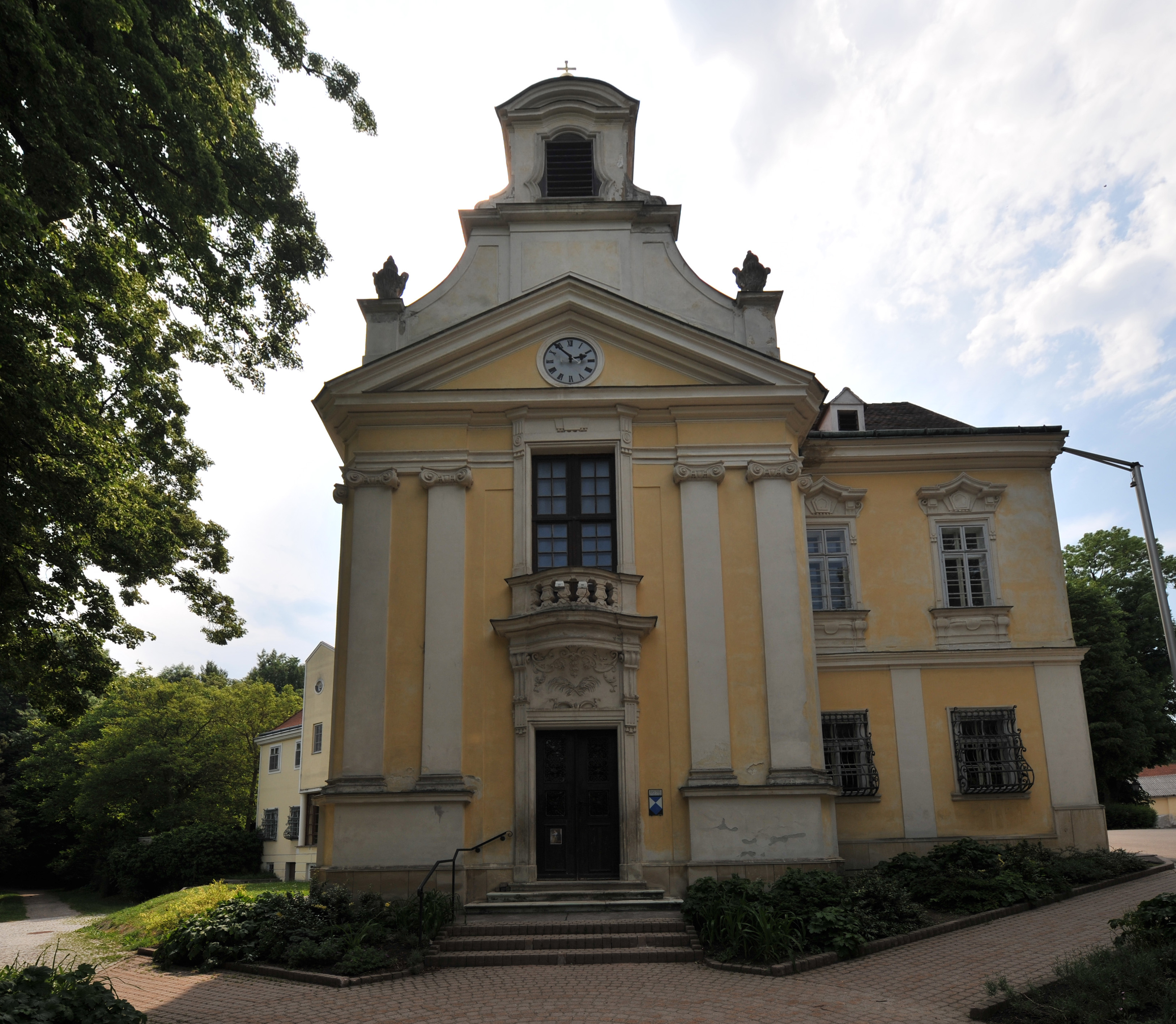 Breitenfurt bei Wien, Pfarrkirche Hl. Johannes Nepomuk